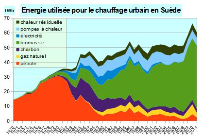 Energy supplied to district heating in Sweden, 1970–2011 data source : Swedish Energy Agency